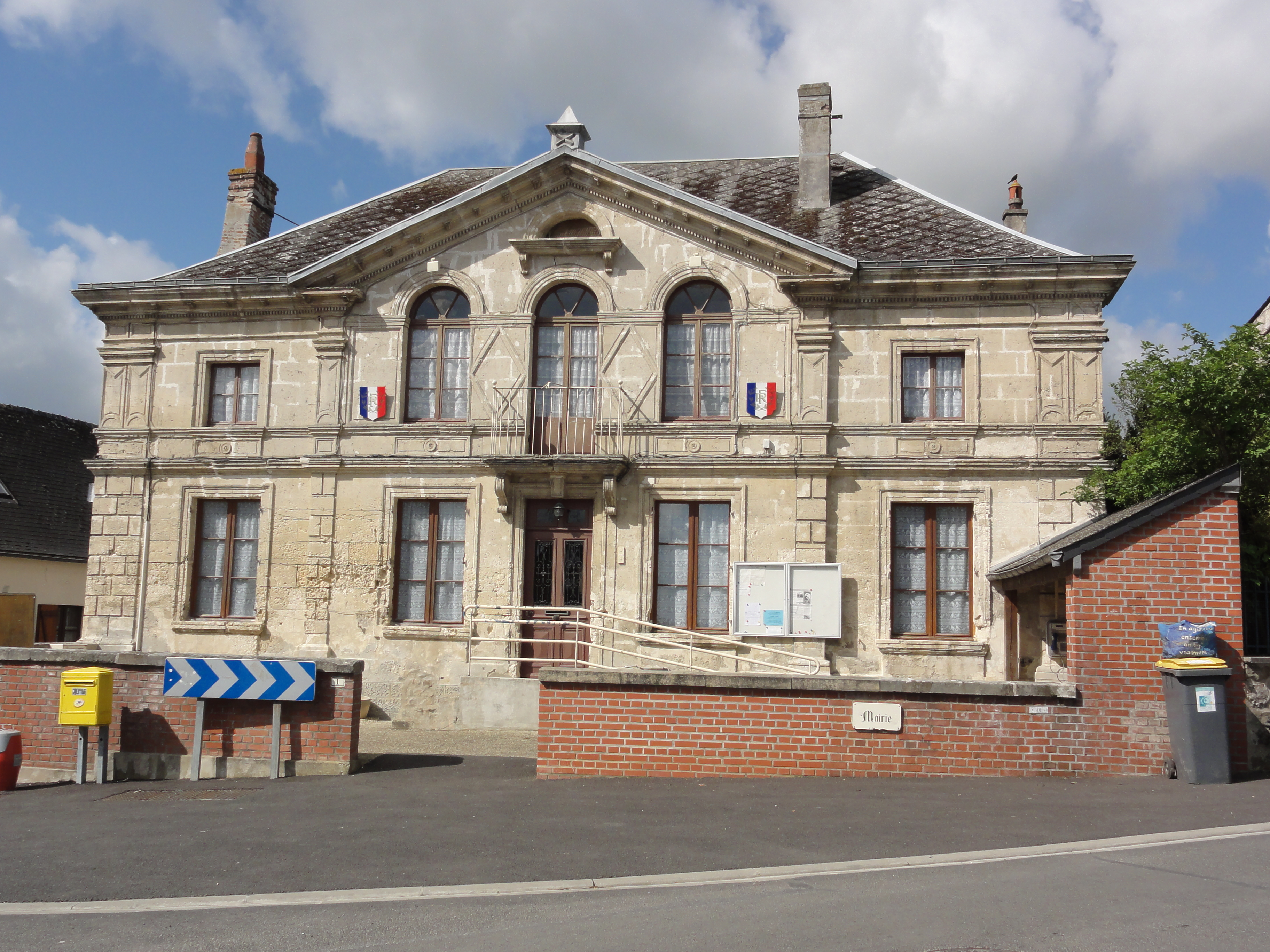 Molinchart (Aisne) mairie